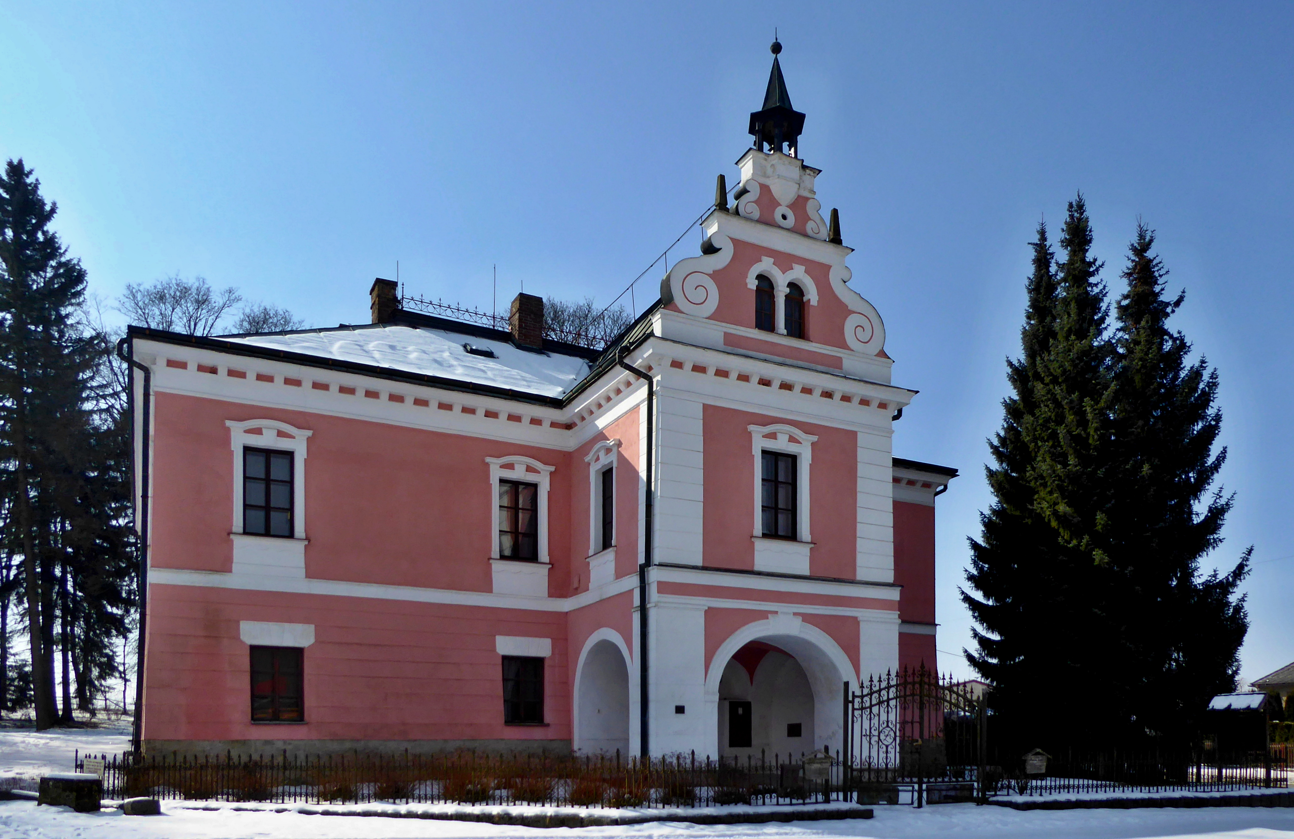 Rural chateau with renaissance layout from the 16th century, after a fire in 1896 rebuilt in pseudo-baroque style. On the place of the chateau originally a fortress from the 15th century named "Odranec", later hamlet with name Hamr nad Kamenicí, since 1769 called Svobodné Hamry. Since 1862 the owner was the architect Jan Nevole (1812–1903), he lived in the chateau from 1863 until his death. During life of "Jan Nevole", the chateau became also a cultural center with a patriotic element. Some time was live at the chateau Franz Alexander Zach (1807–1892), lawyer, military theorist and panslavist, also worked in Serbia (Generale in the Serbian Army), fighter for freedom of the Slavs. After 1877 Karel Václav Rais (1859–1926), then a teacher in Trhová Kamenice and later a writer, was also a guest at the chateau. In the chateau also a visitas czech personalities František Palacký (1798–1876) and František Ladislav Riegr (1818–1903). Historical monument the Iron Mountains, on the green tourist route of the Czech Tourists Club (part: Veselý Kopec - Dřevíkov - Svobodné Hamry). Locality in the Protected Landscape Area Žďár Hills. Monument protected building from May 3, 1958, nearby also statue of St. John of Nepomuk. In the years 1982–1996 he was the seat of the museum of folk architecture titled the Set of folk buildings Vysočina. Since 1997 private object. Photo location: Czechia, Pardubice Region, municipality Vysočina, small hamlet of "Svobodné Hamry", Stružinecká knoll land.